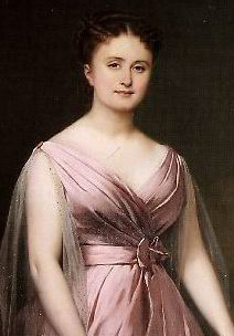 Portrait of Hortense Schneider by the French painter Alexis-Joseph Pérignon, (1806-1882)